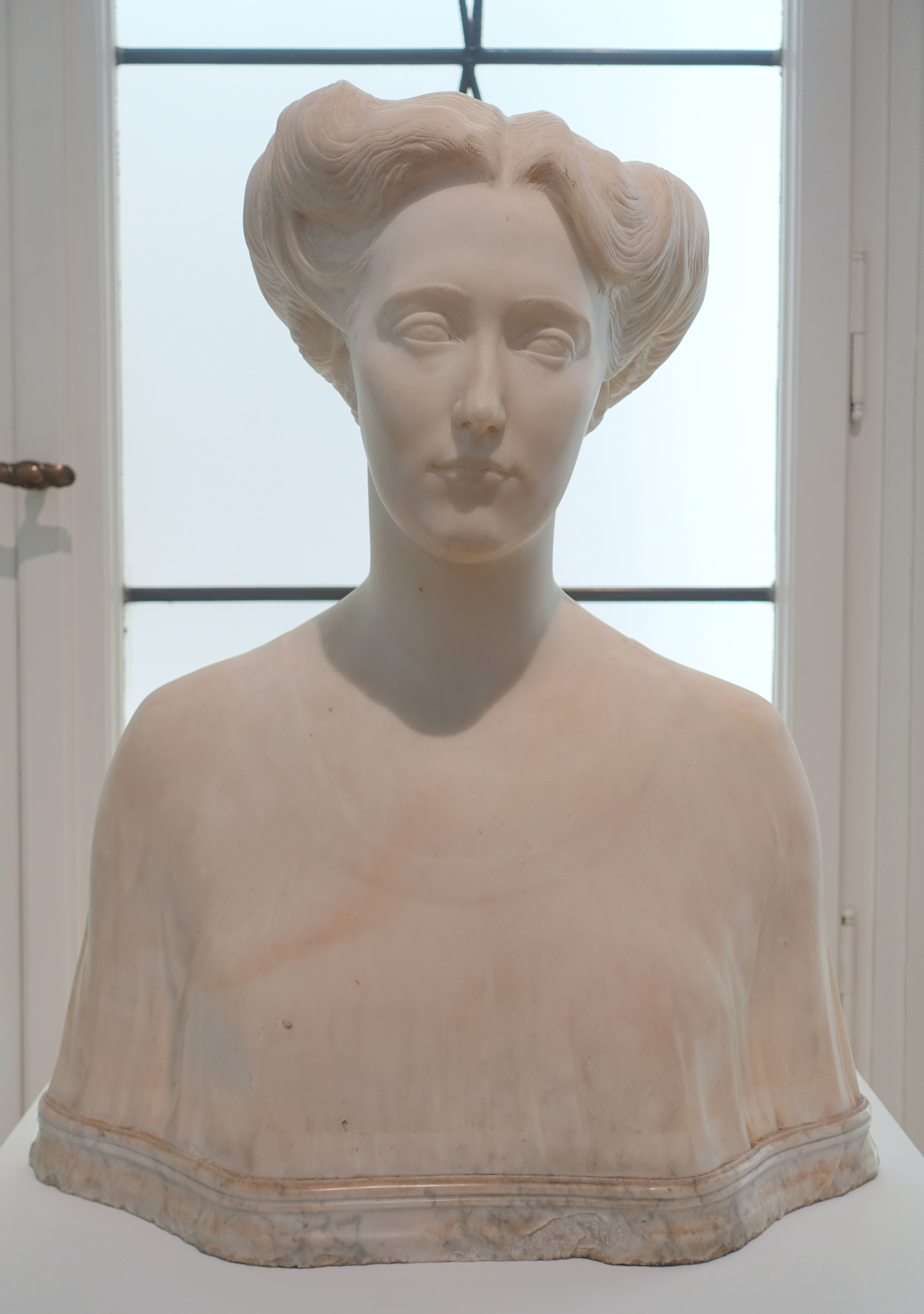 Exhibit in the Museum Künstlerkolonie Darmstadt - Mathildenhöhe - Darmstadt, Germany.